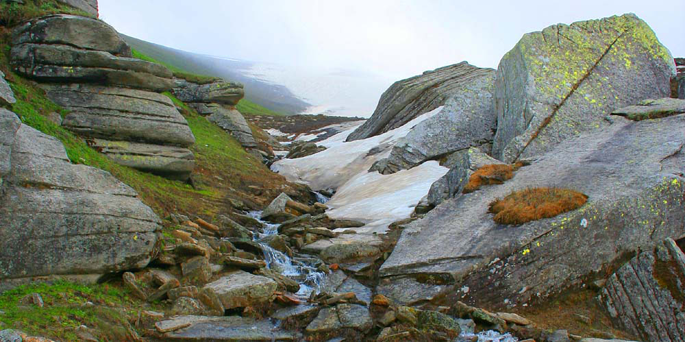 Stream on way to Daurathaatch at 13.49 hrs. on way to Daura Thaatch (11,300 ft.) during Saurkundi Pass Trek in Kullu District of Himachal Pradesh, India.